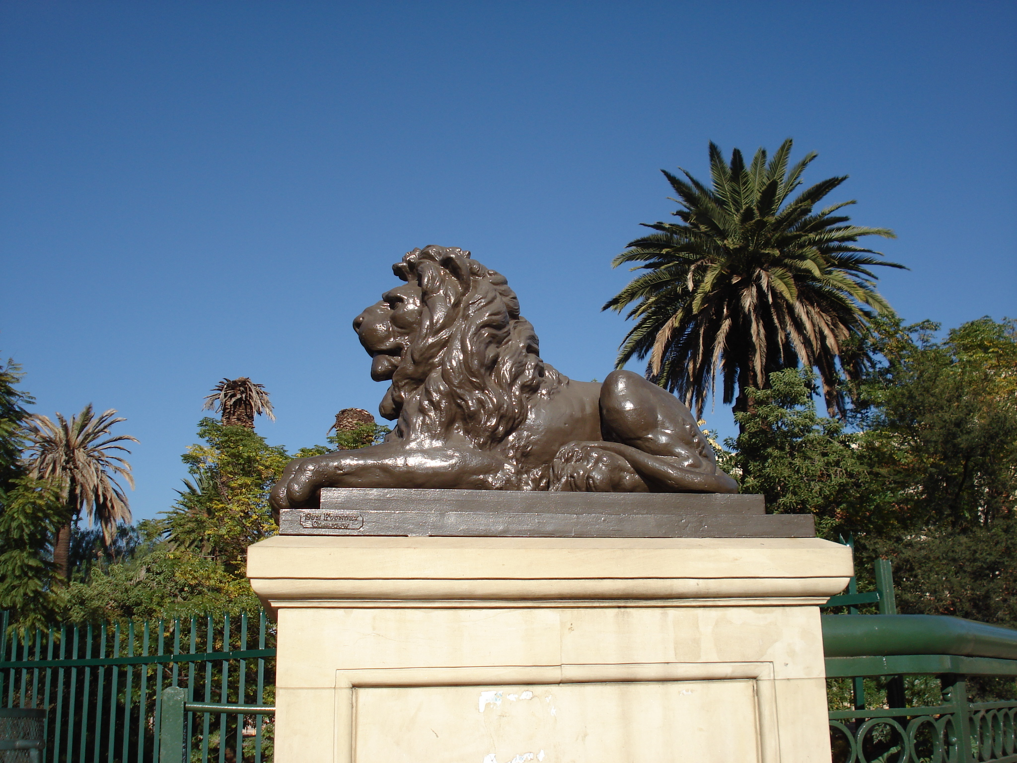 This media shows a South African Protected Site with SAHRA file reference 9/2/258/0076.